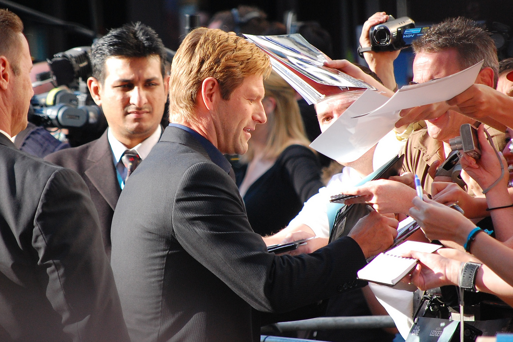 Aaron Eckhart signing autographs at the European premiere of The Dark Knight